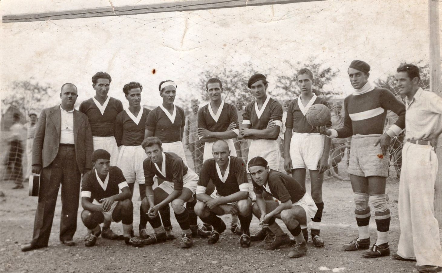 Sports club "Kozhuh" from Gevgelija, photographed before the match between SC "Jugolsavija" from Negotino and the SC "Kozhuh" from Gevgelija. Result: 12: 0 for "Kozhuh". Photo taken probably in 1930s This media file is produced by Wikipedian in Residence in Category:Wikipedian in Residence at DARM in 2016.